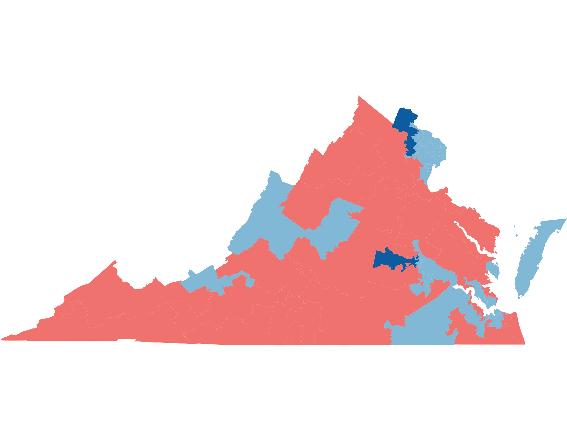 2019 Virginia State Senate Election Results